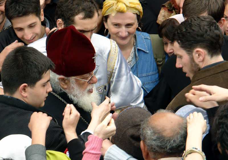 Ilia II, Catholicos-Patriarch of Georgia. He was also the bishop of Batumi and Shemokmedi